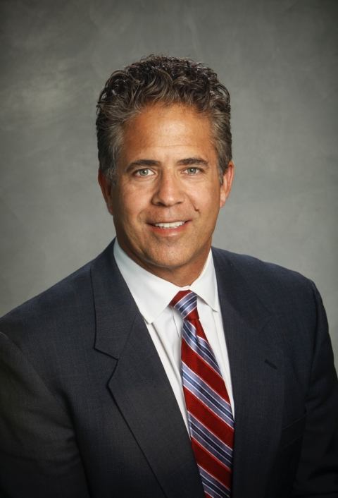 photo on official house website